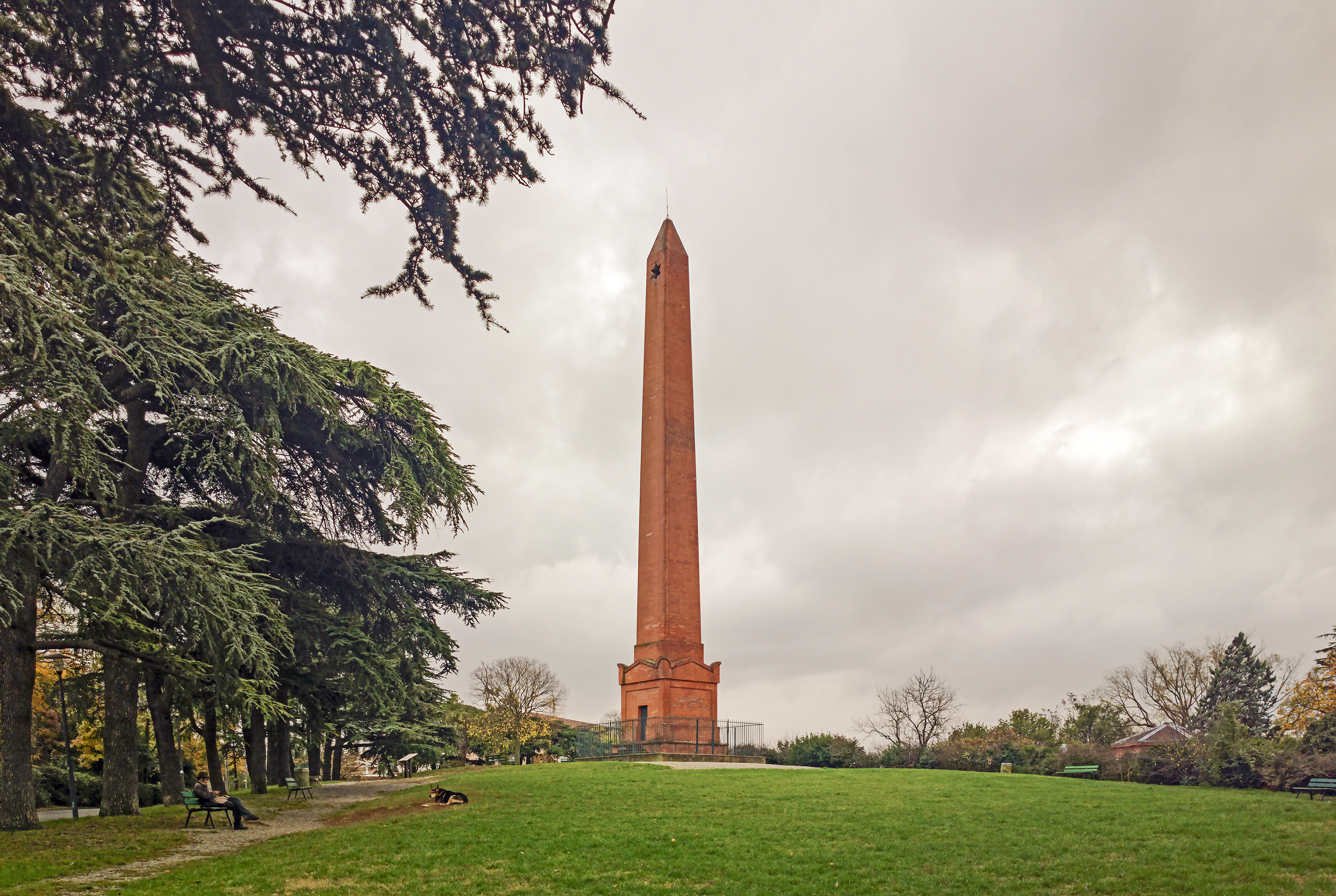 Monument commemorating the Toulouse battle of 1814 by Urbain Vitry at the top of the hill of Jolimont - 1835